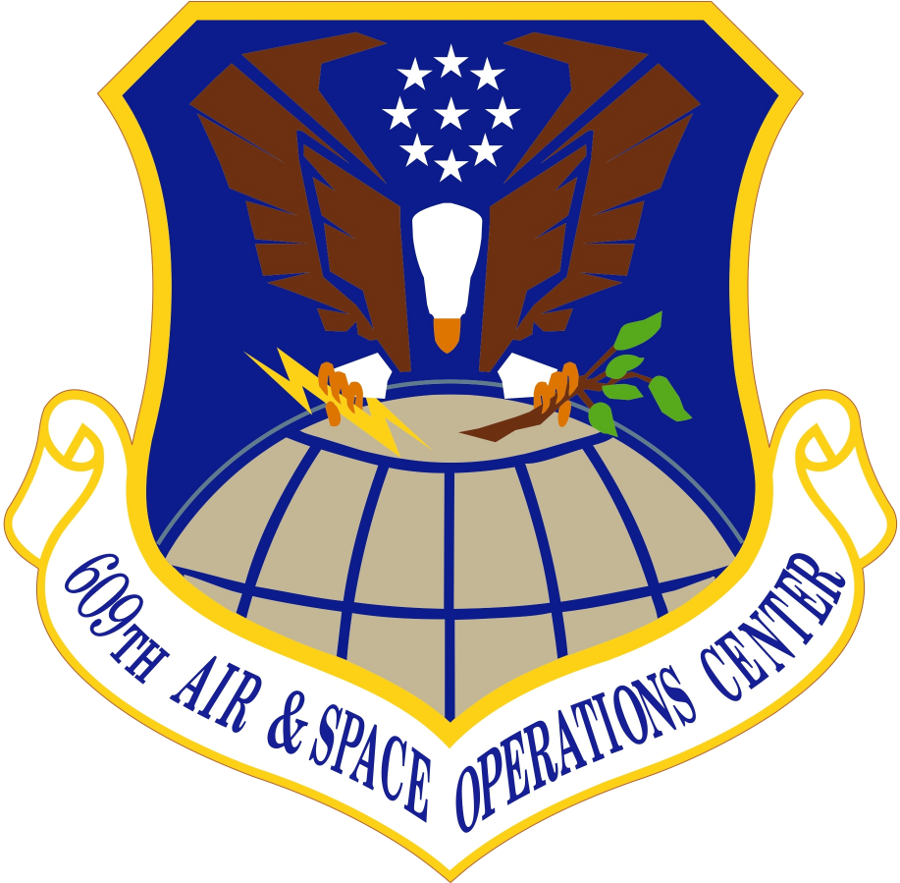 609th Air and Space Operations Center